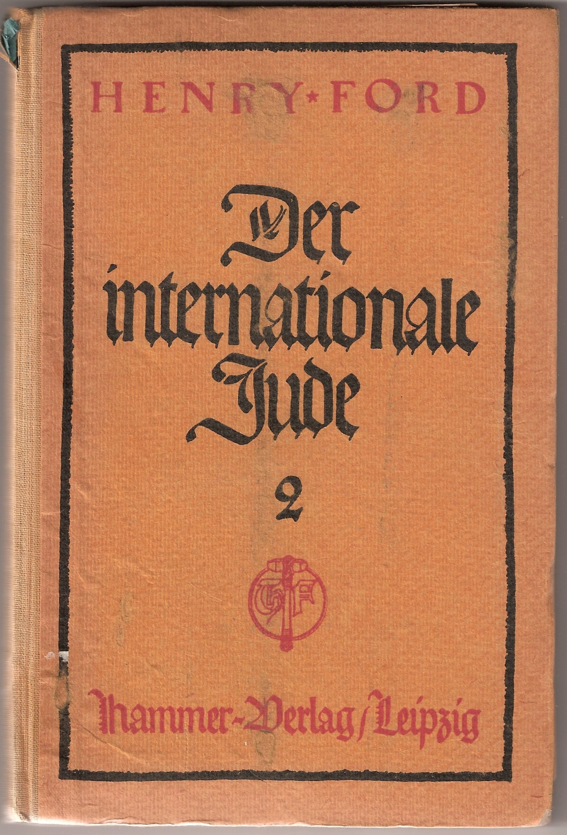 Cover of German imprint of The International Jew, vol. 2